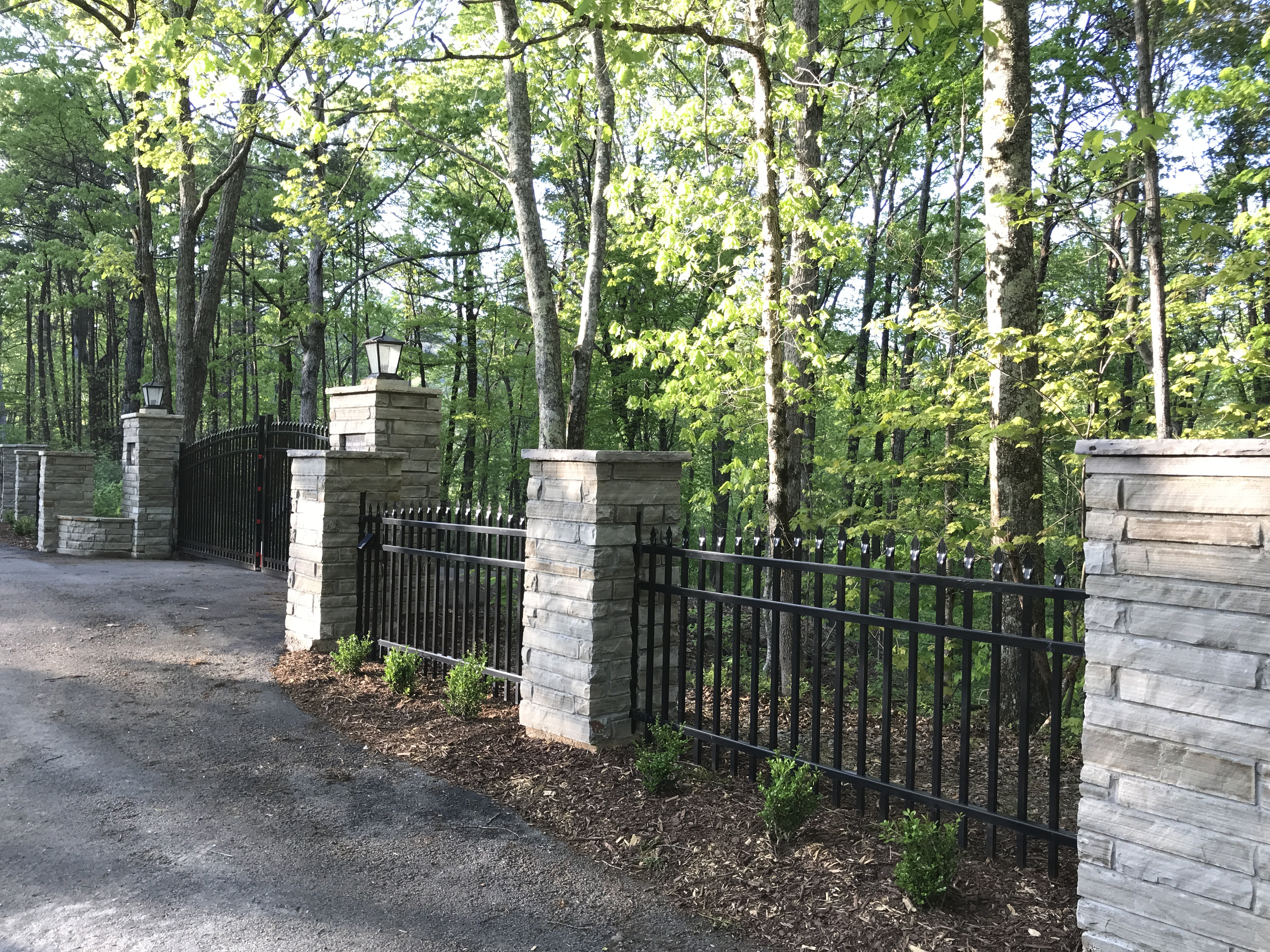 Picture of gated entrance to estate with acreage within The Preserve at Sharp Mountain, Georgia USA